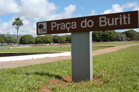 buriti square in Brasilia, Brazil